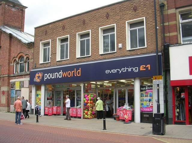 poundworld - Carlton St